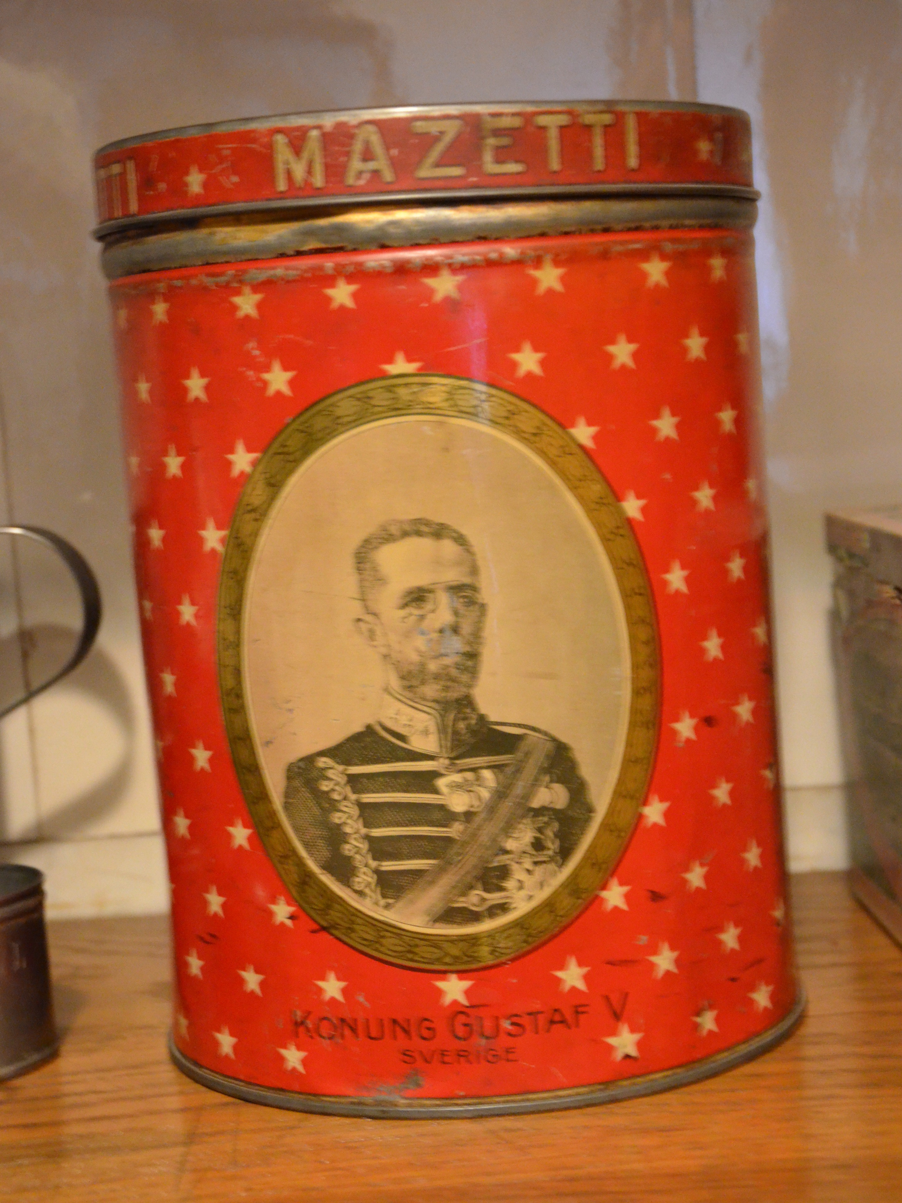 Kakao tin with cacao from ghe Swedish Mazetti firm, with the portrait of the Swedish king Gustav V